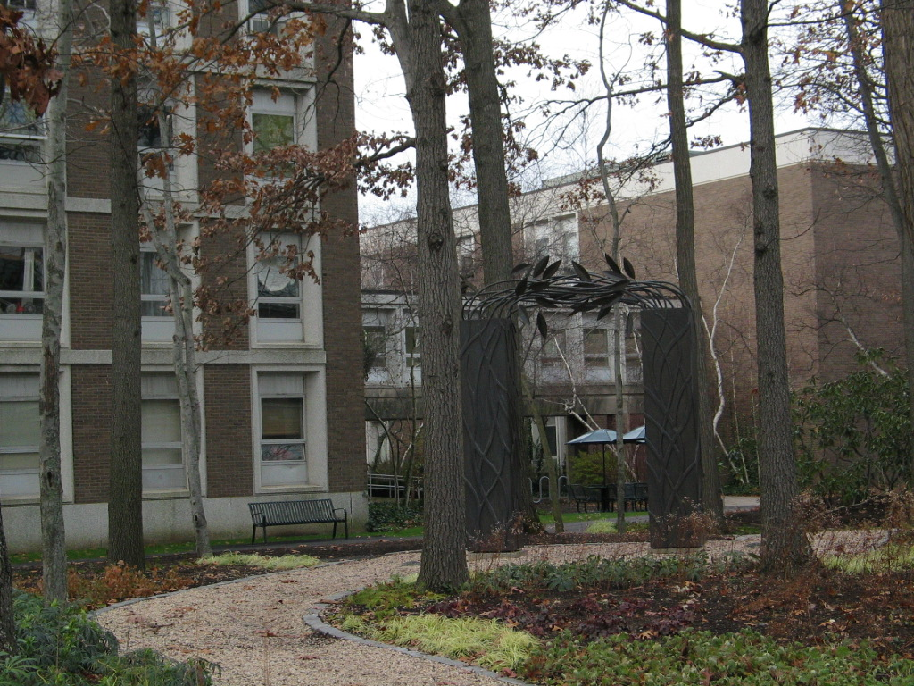 somewhere on the West Campus